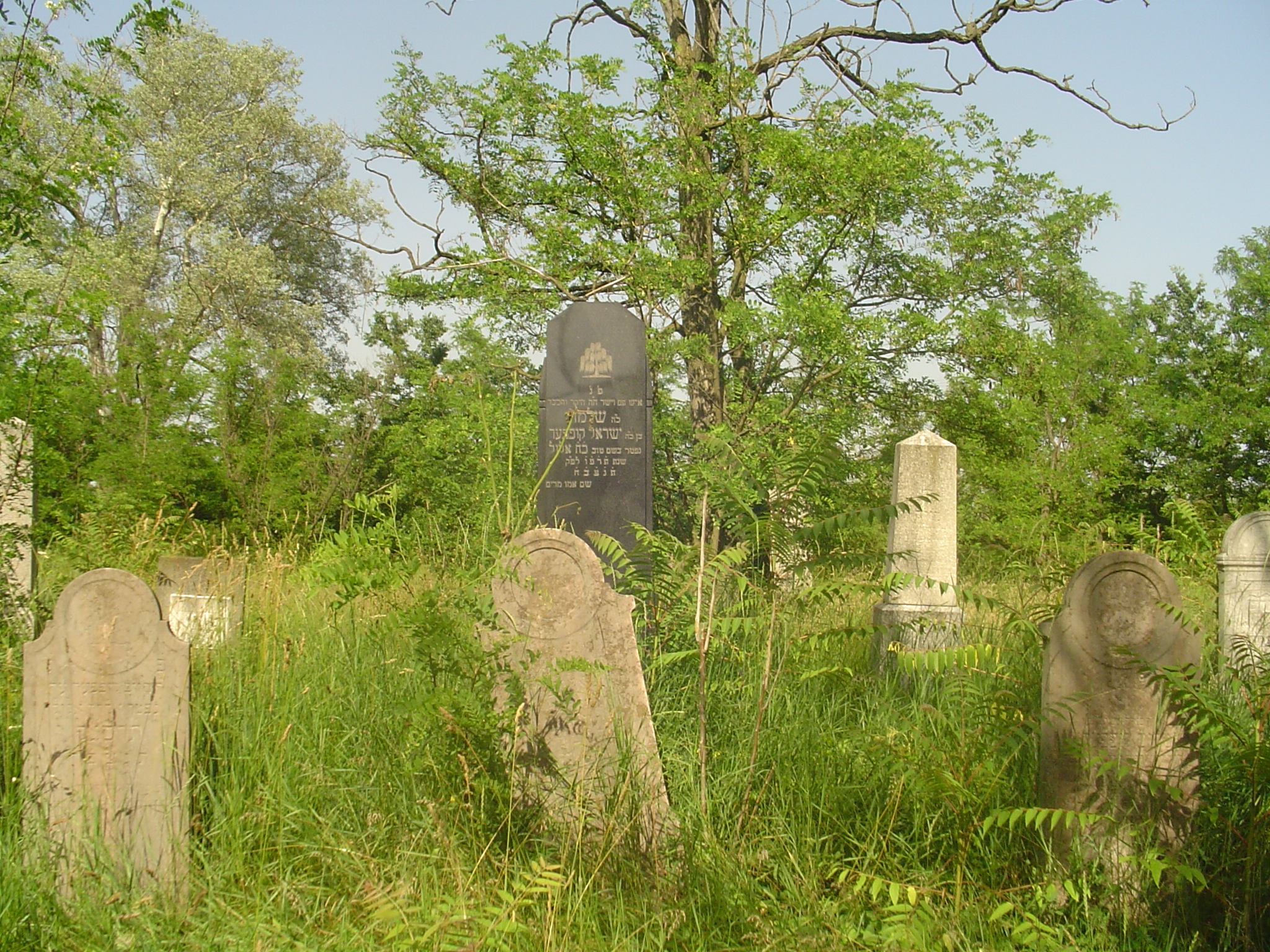 Jewish cemetary from Fülöpszállás (Hungary)